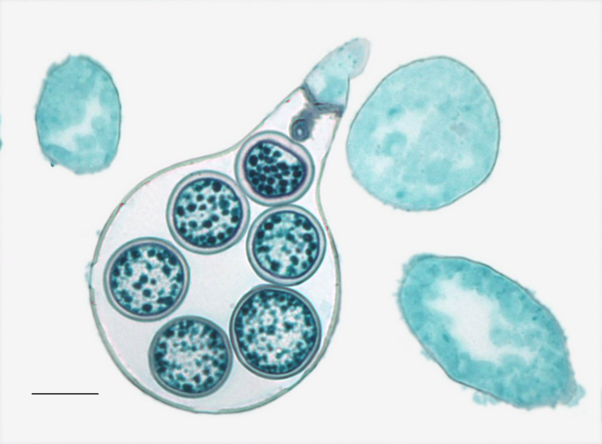 Light microscopy of Saprolegnia showing the different stages of development for the oogonium of Saprolegnia. Showing a young, immature, and mature oogonium. The mature oogonium has eggs inside. Scale bar = 0.01mm.